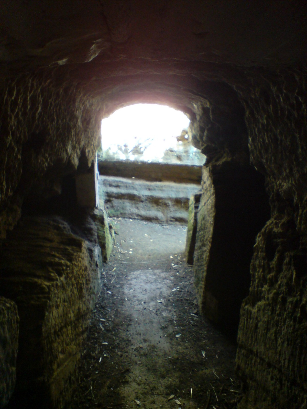 Part of the tunnel systems under the South Battery area of North Head, in Devonport, North Shore City, New Zealand. Much of the system is publicly accessible.